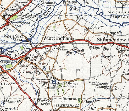 A Map showing the area of Mettingham in the 20th century from Ordnance Survey